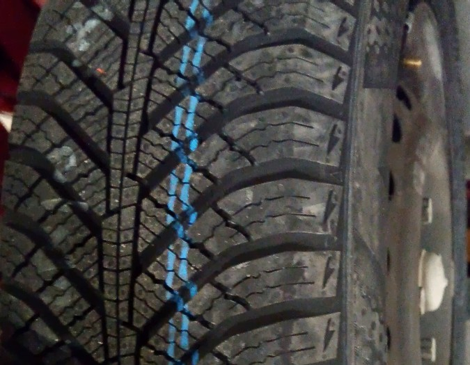 4-season tire with greater imprint / winter predisposition